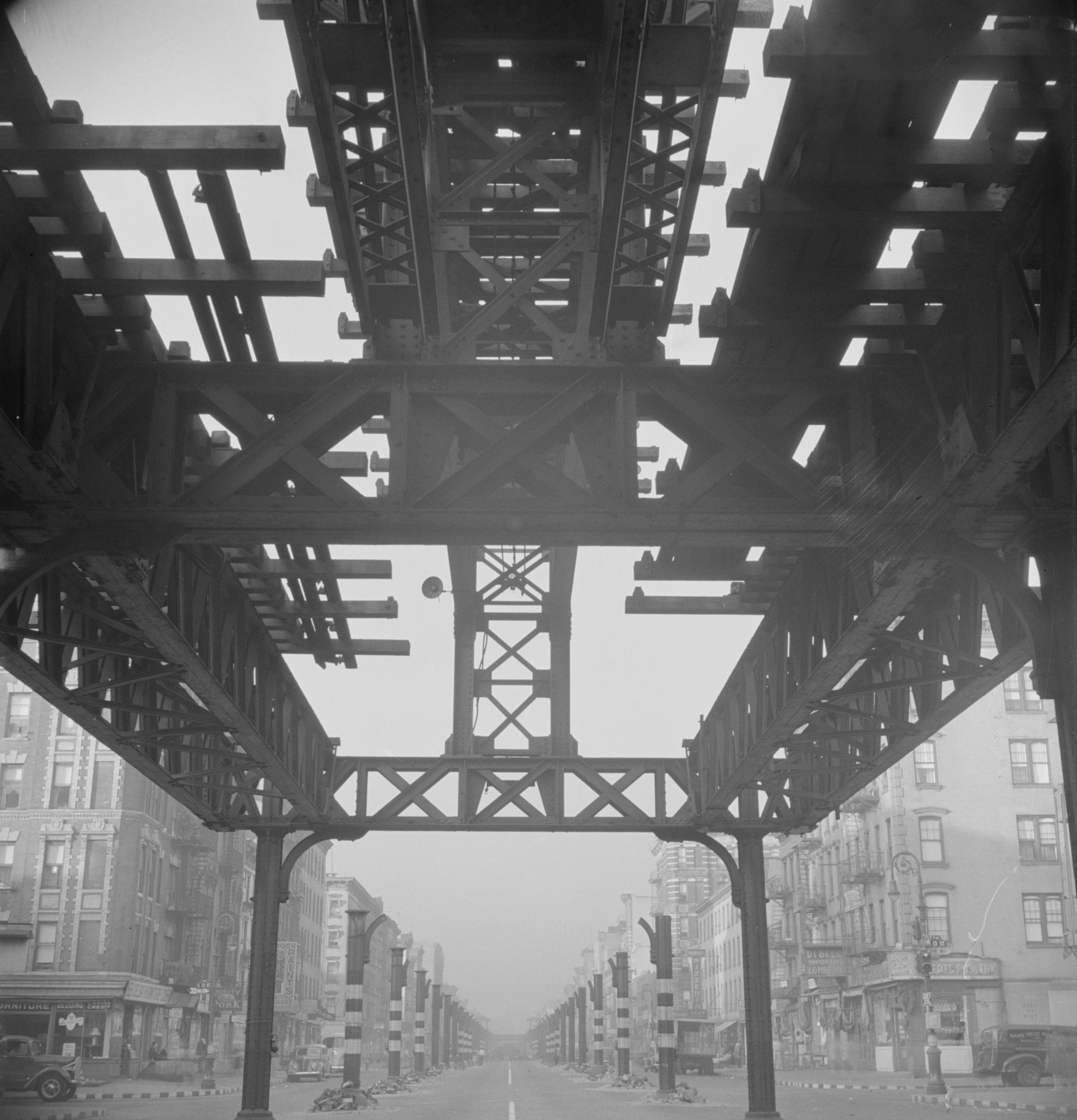 Looking south at 7 a.m. from 13th Street on First Avenue, showing the elevated railway in midst of demolition